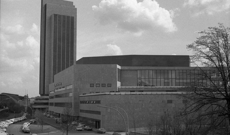 Hamburg: Congress Centrum